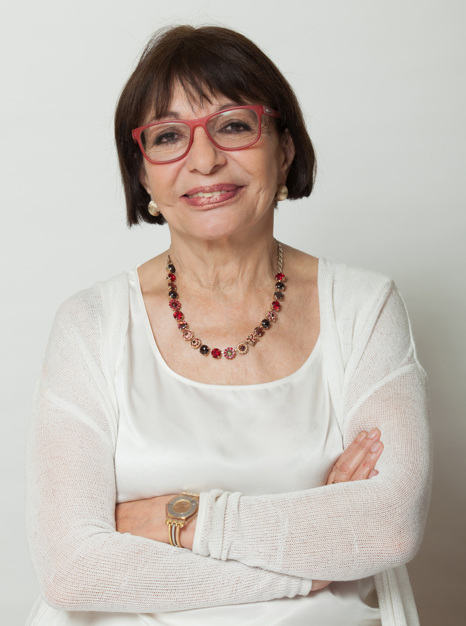 Rivka Michaeli 2016 Photo by: Nitzan Hafner